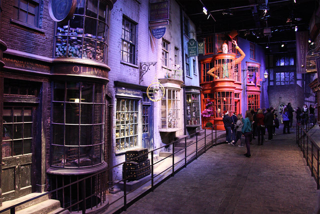 Wizardly shopping street hidden from muggles at Warner Brothers studios.